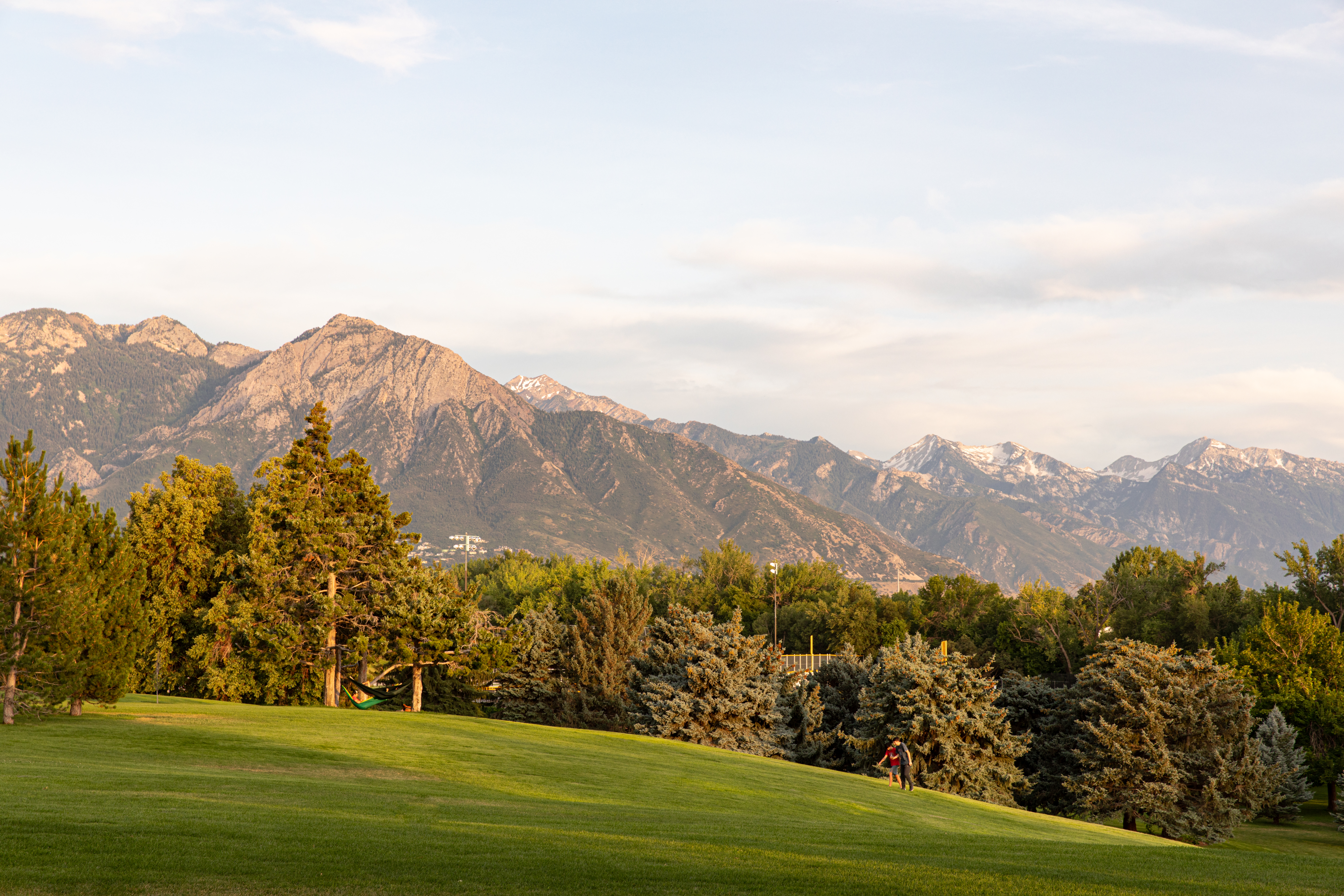 Sugarhouse Park in Sugarhouse, Utah. July 2019.